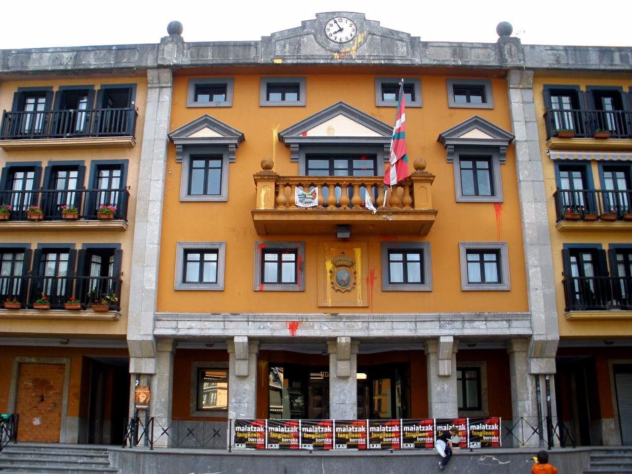 Ayuntamiento de Anoeta (Guipúzcoa)